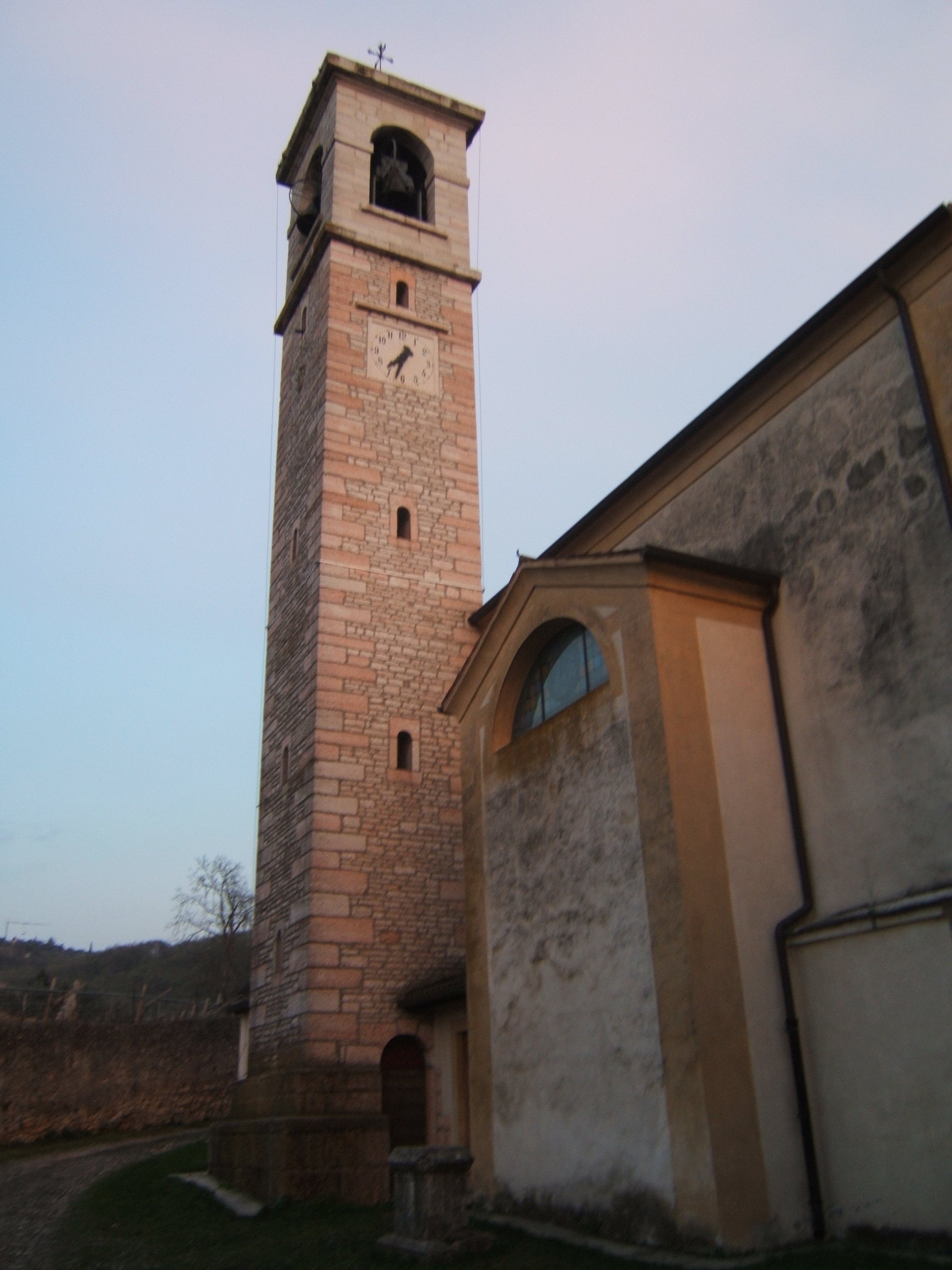 Photo of the bell tower of the Church of Arbizzano